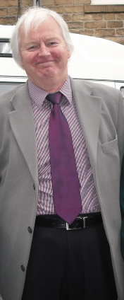 British actor Ian Lavender at an event in Derbyshire.